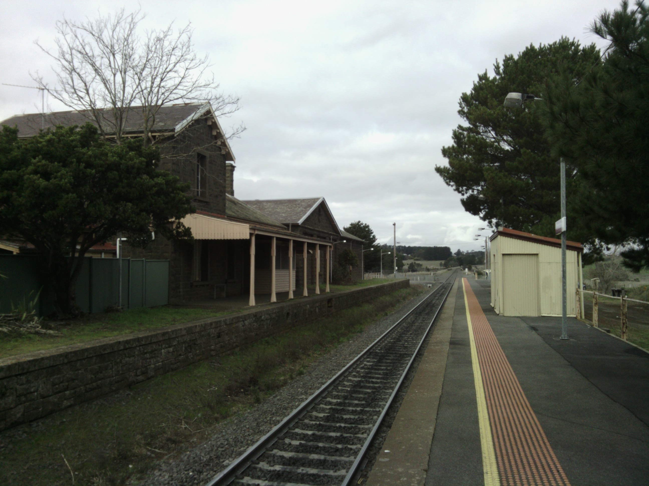 Malmsbury Railway Station, Victoria.